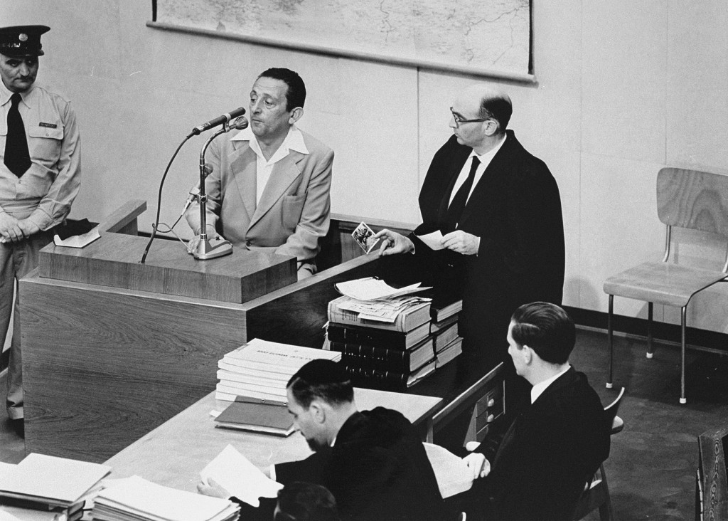 Chief prosecutor Gideon Hausner (standing, right) questions witness Henryk Ross (seated, at microphone) during the Eichmann Trial in Jerusalem. Below: Gabriel Bach; Jacob Breuer